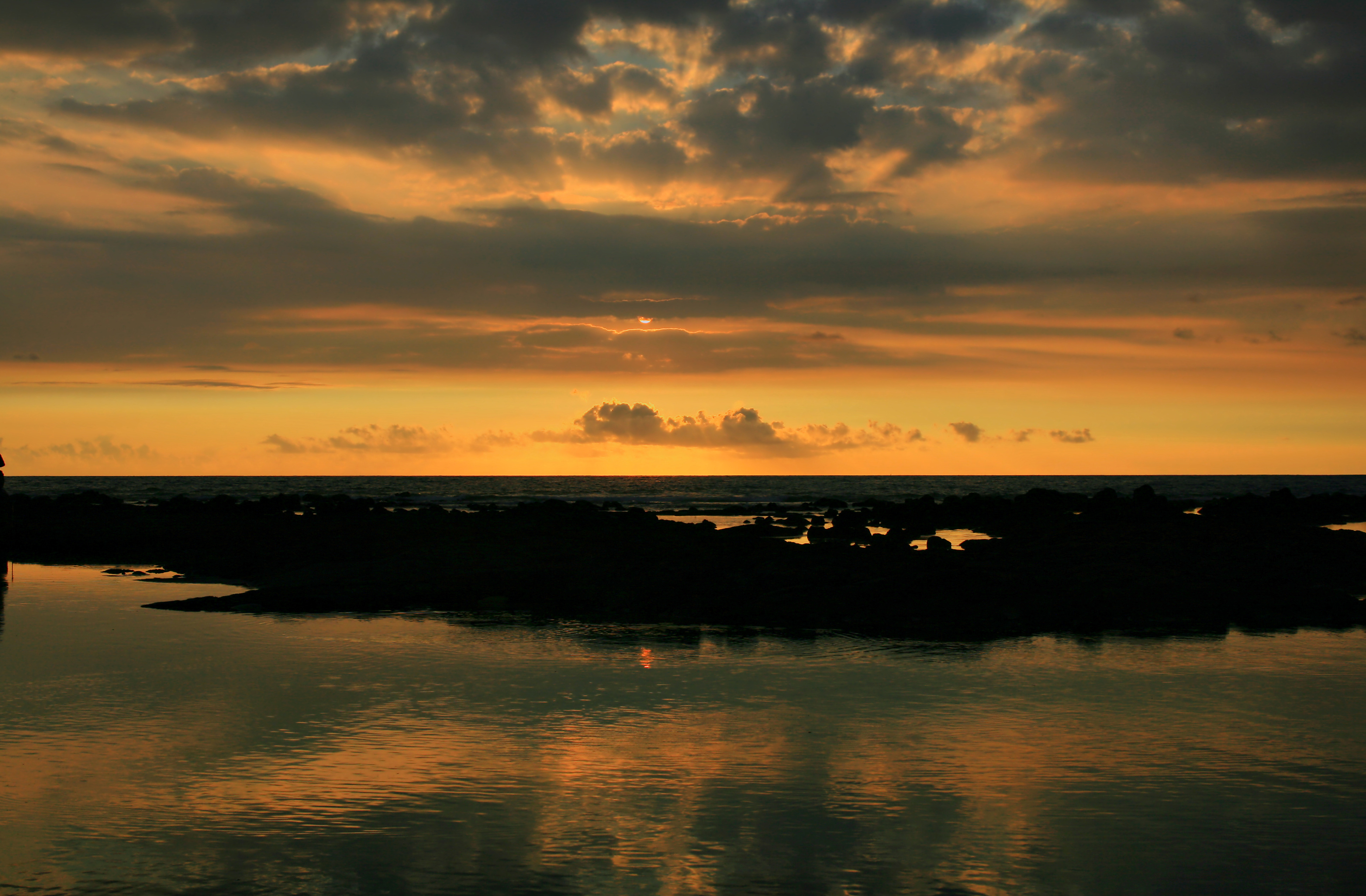 Sunset in Kona, Big Island of Hawaiʻi